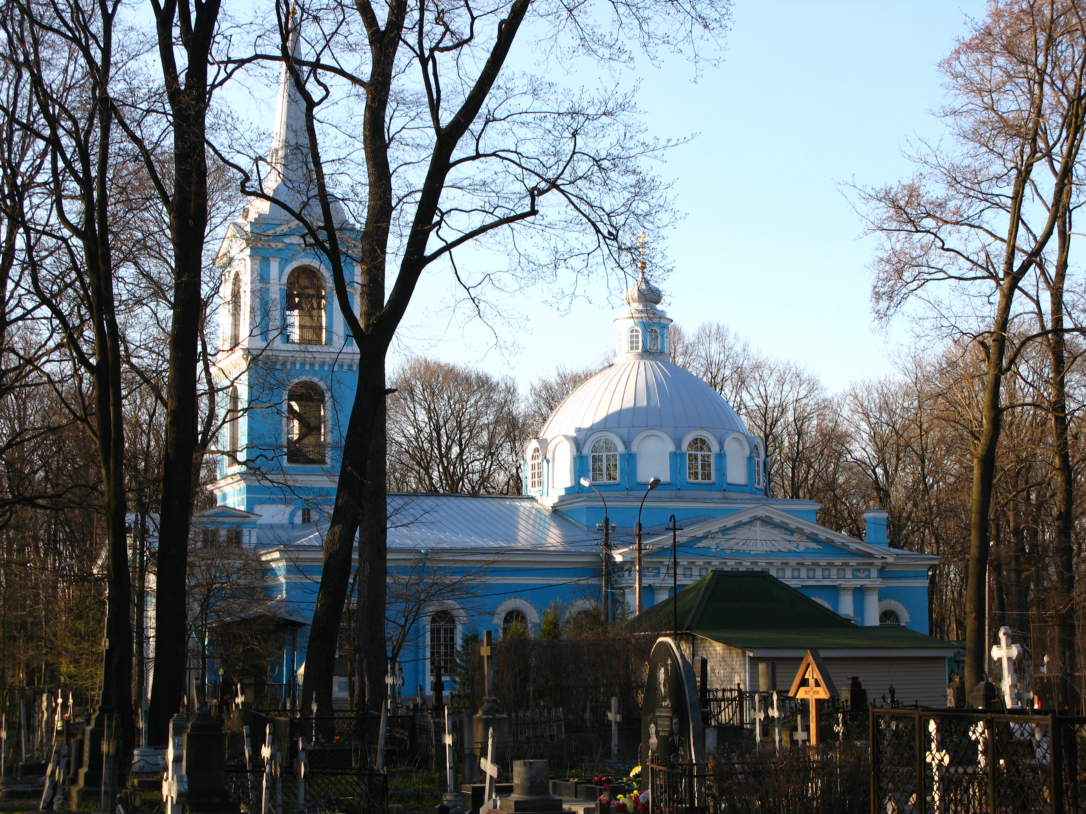 Church to Smolensk Icon of Mary. Smolenskoe, St. Peterburg